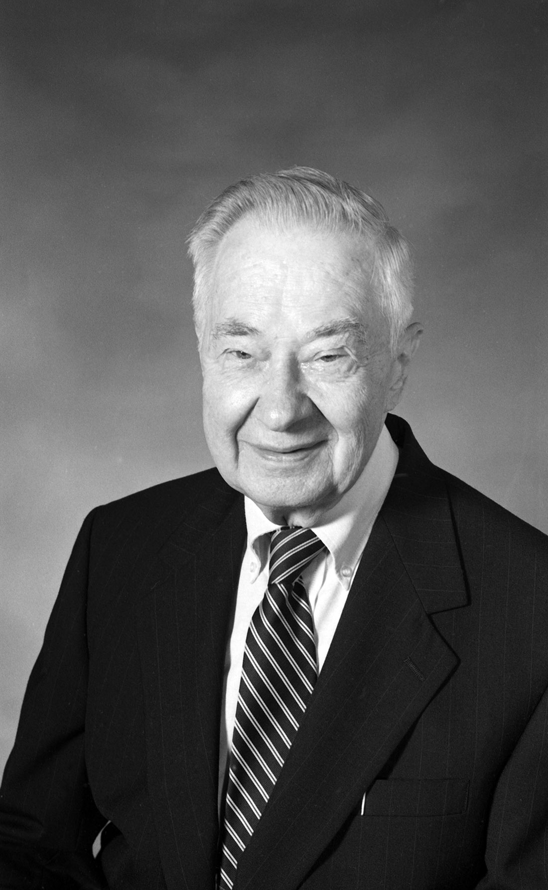 William S. Powell (Bill Powell), studio portrait by Alan Westmoreland, 1 August 2000. rom the General Negative Collection, State Archives of North Carolina.